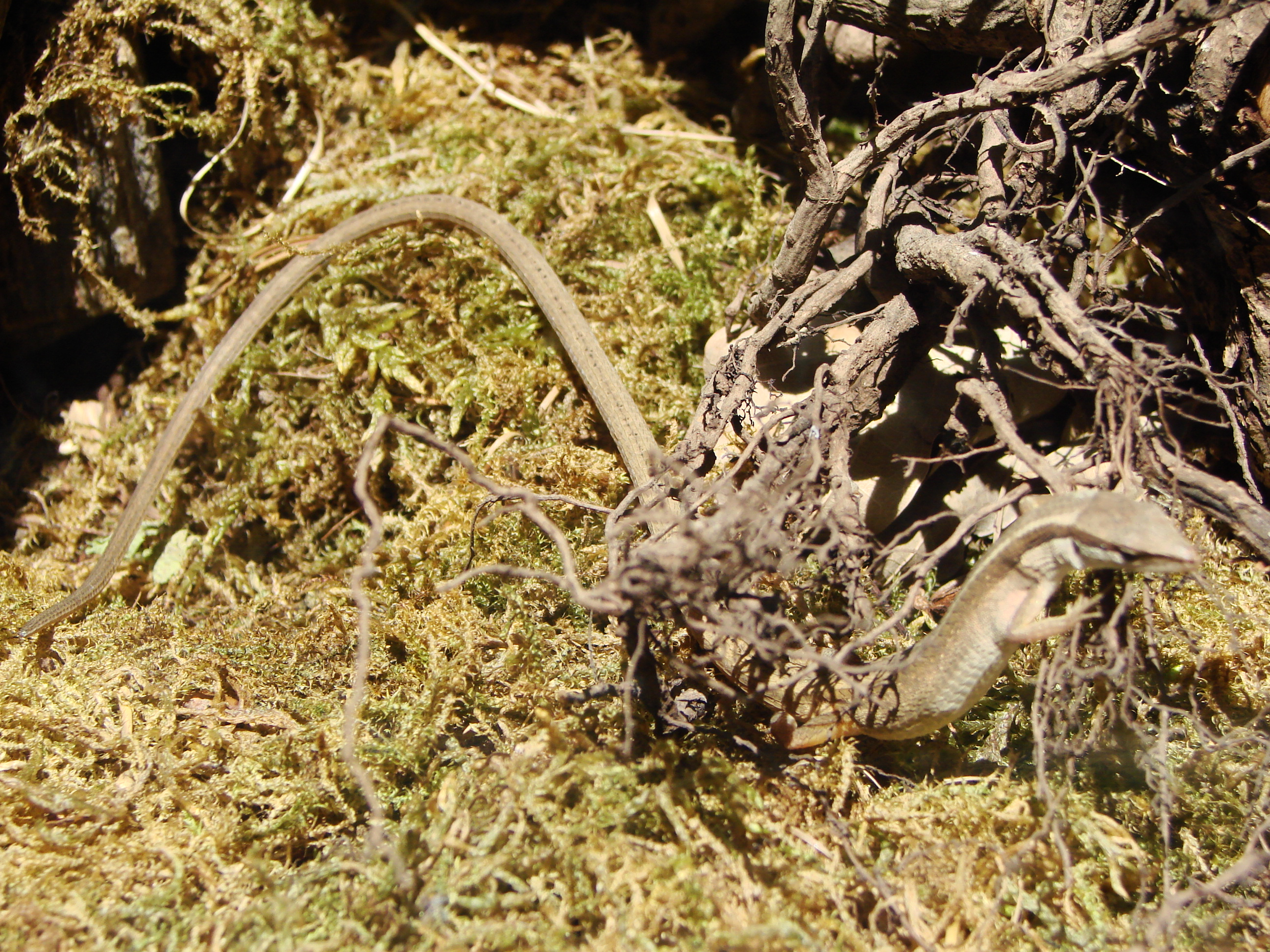 Picture taken in the zoo of Wrocław (Poland): Latastia longicaudata (Reuss, 1834)??